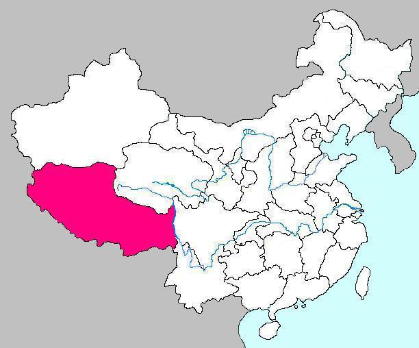 Maps of Tibet Autonomous Region of China